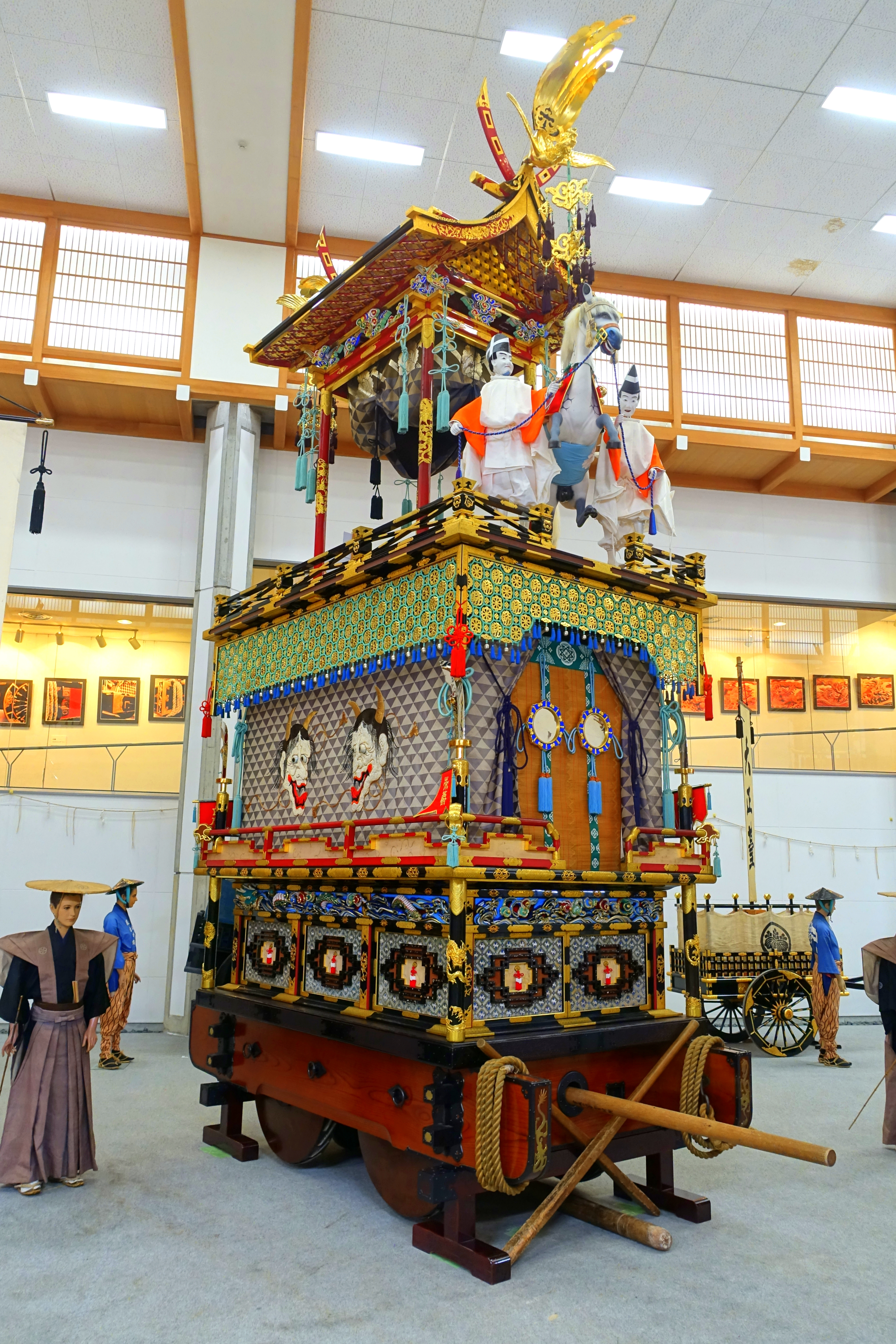 Takayama Festival Float Exhibition Hall (高山祭屋台会館) - Takayama, Gifu, Japan.